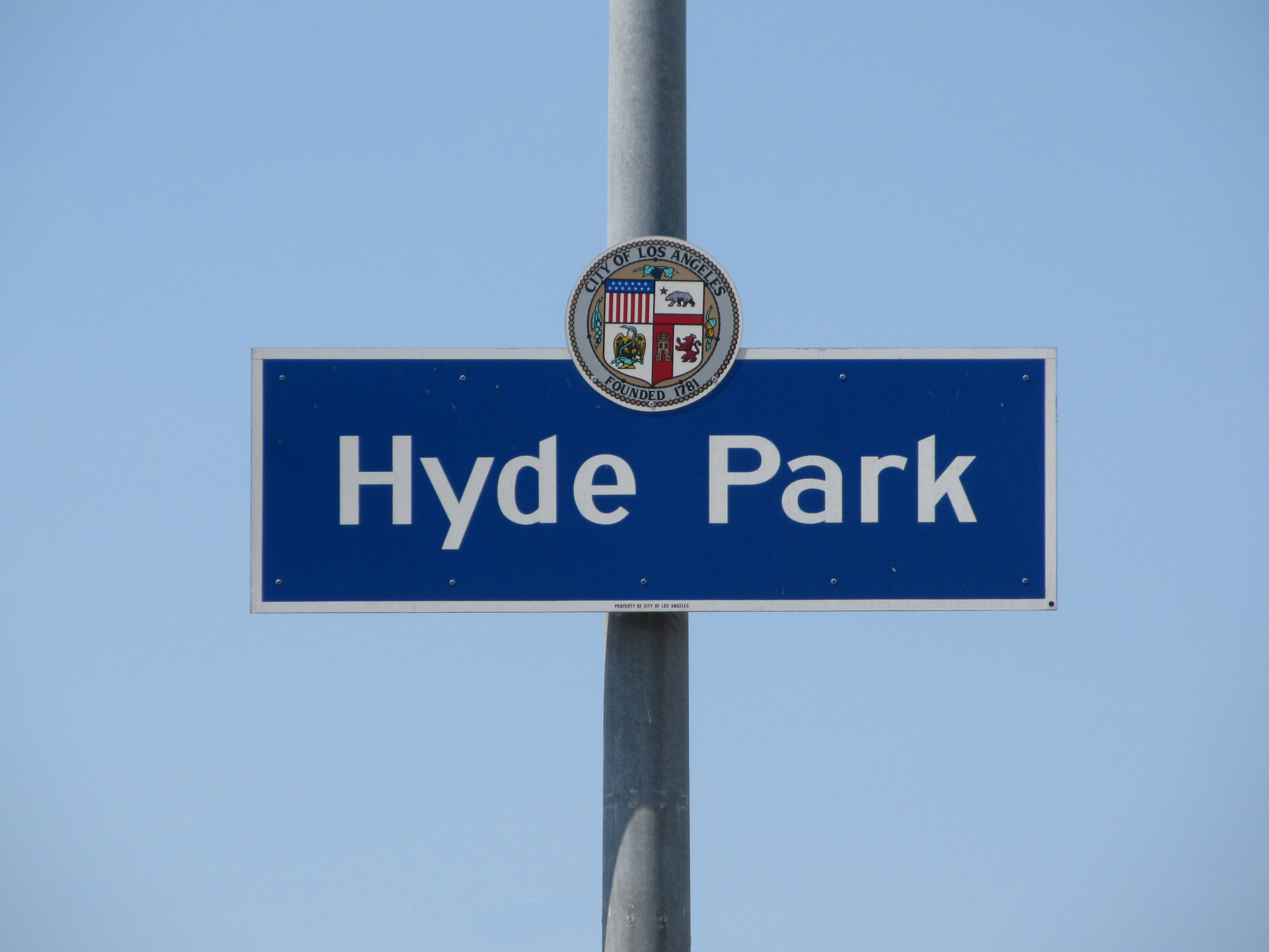 Hyde Park signage located at Crenshaw Blvd. and 79th Street